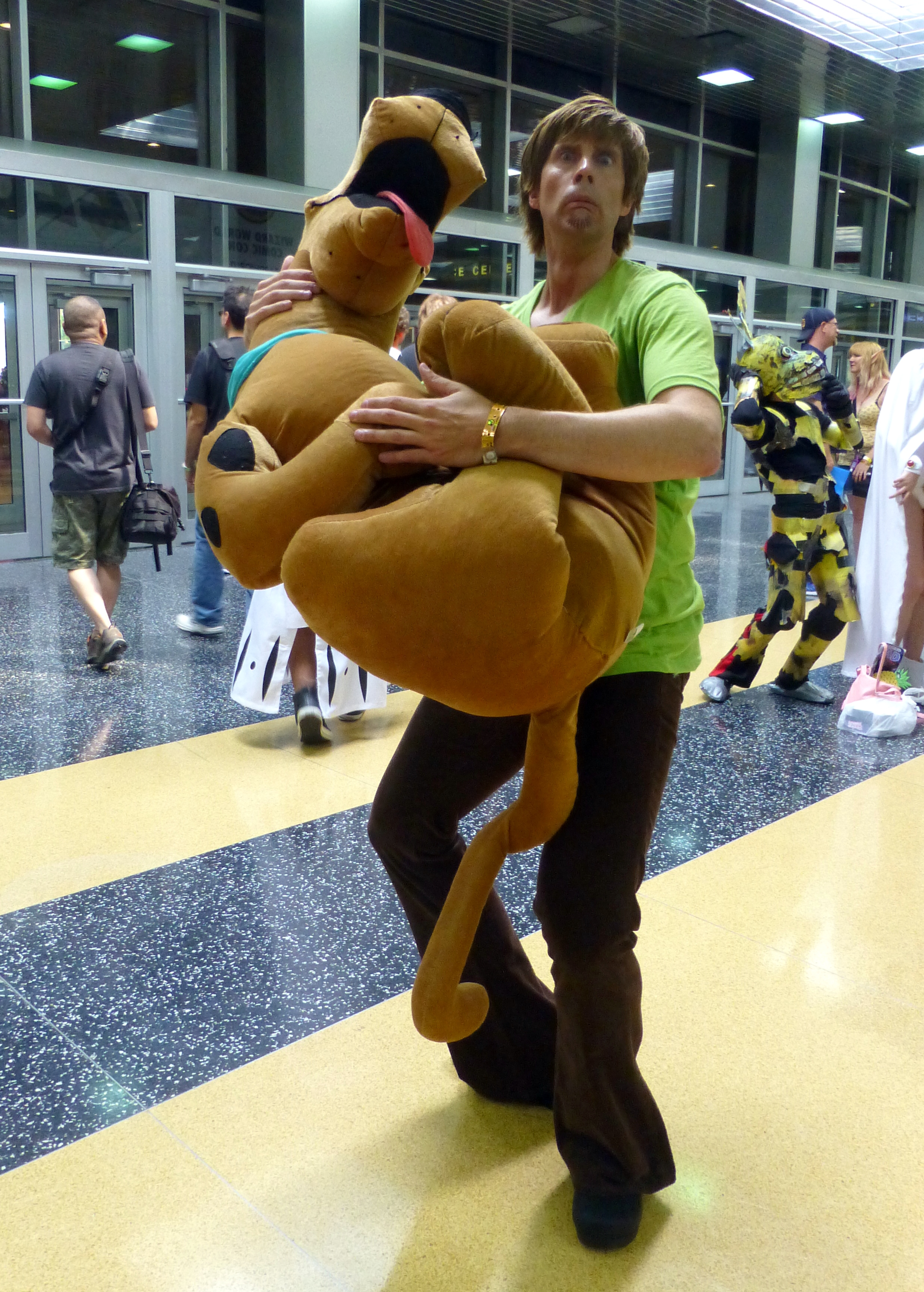 Scooby Doo and Shaggy. Zoinks Cosplay at the 2015 Wizard World Chicago.